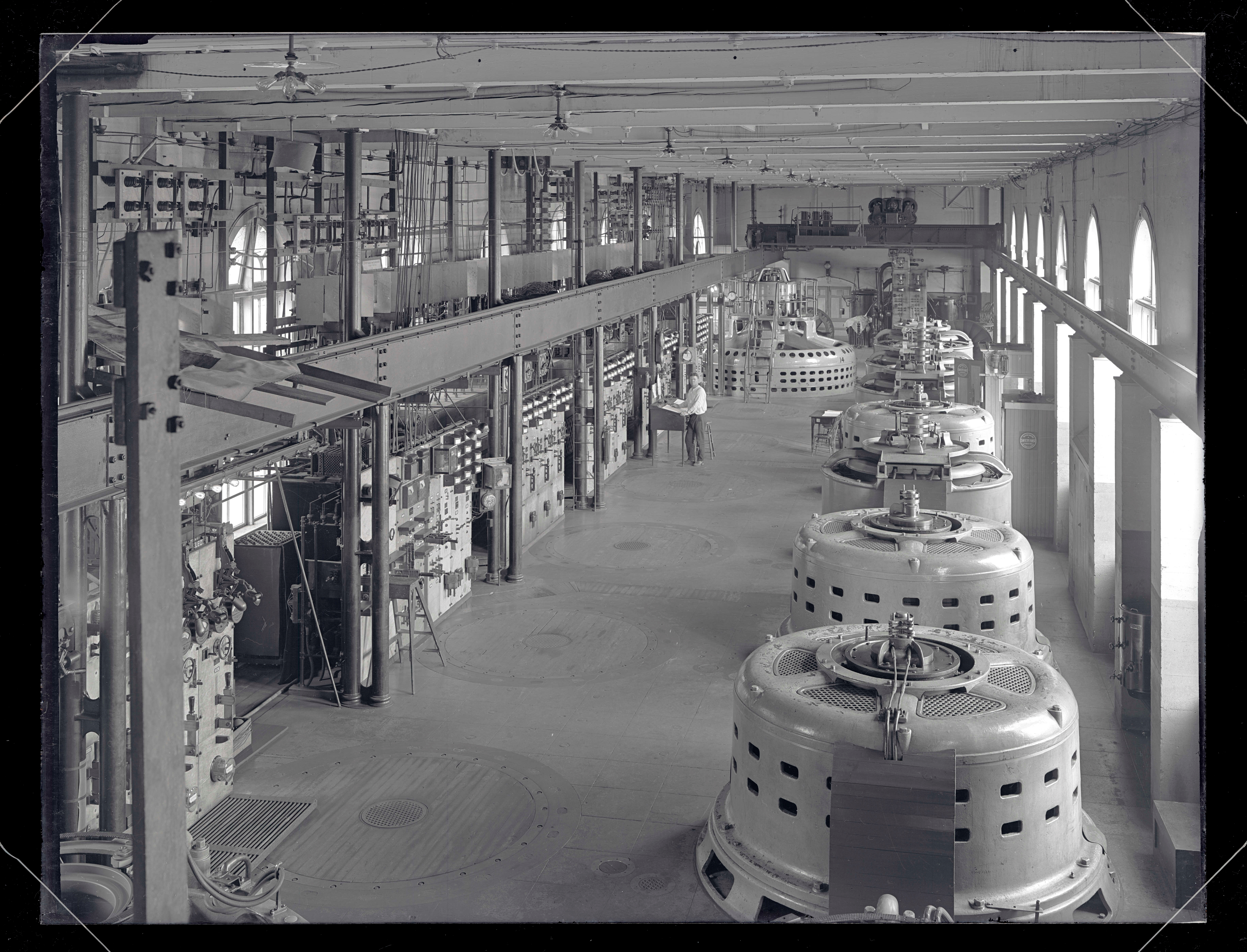 PGE Portland General Electric glass plate photo dame powerhouse Sullivan